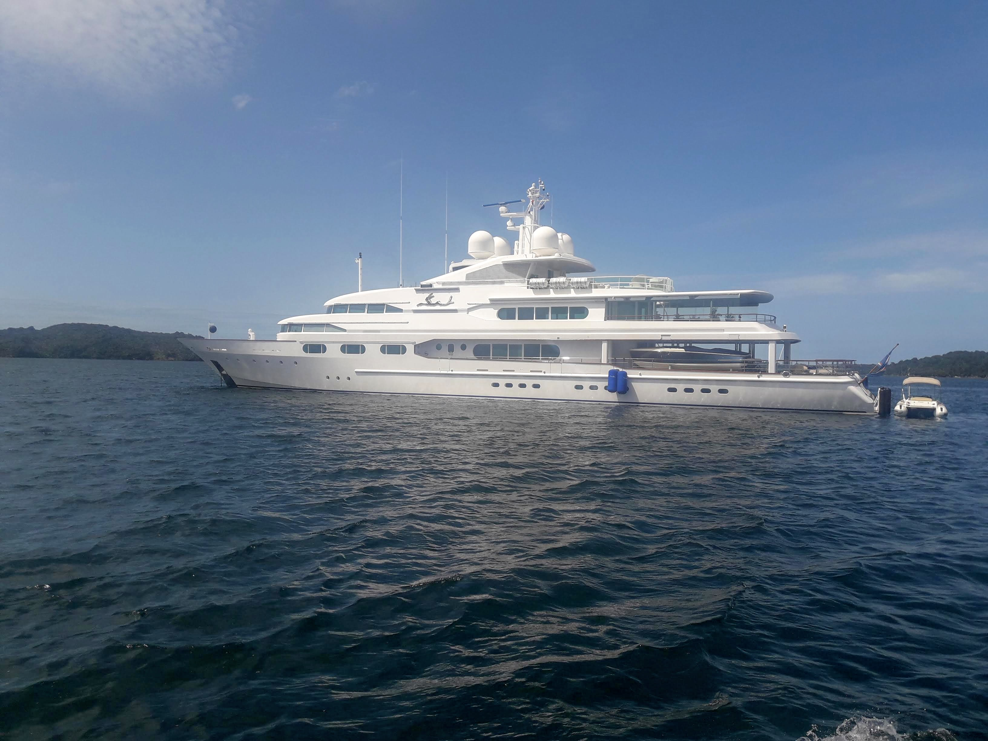 Dancing Hare superyacht at Ulva Island New Zealand